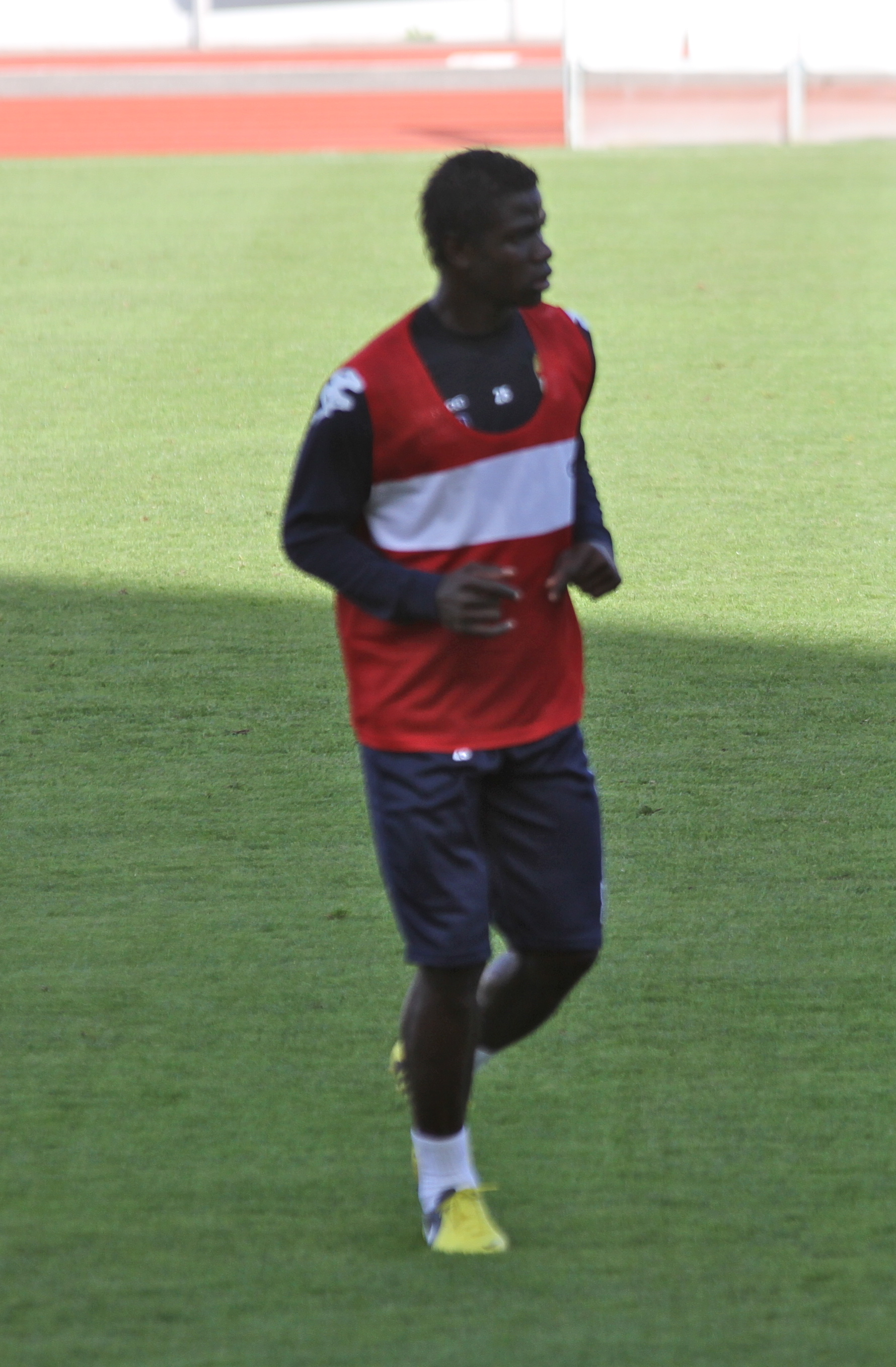 Jonathan Mensah